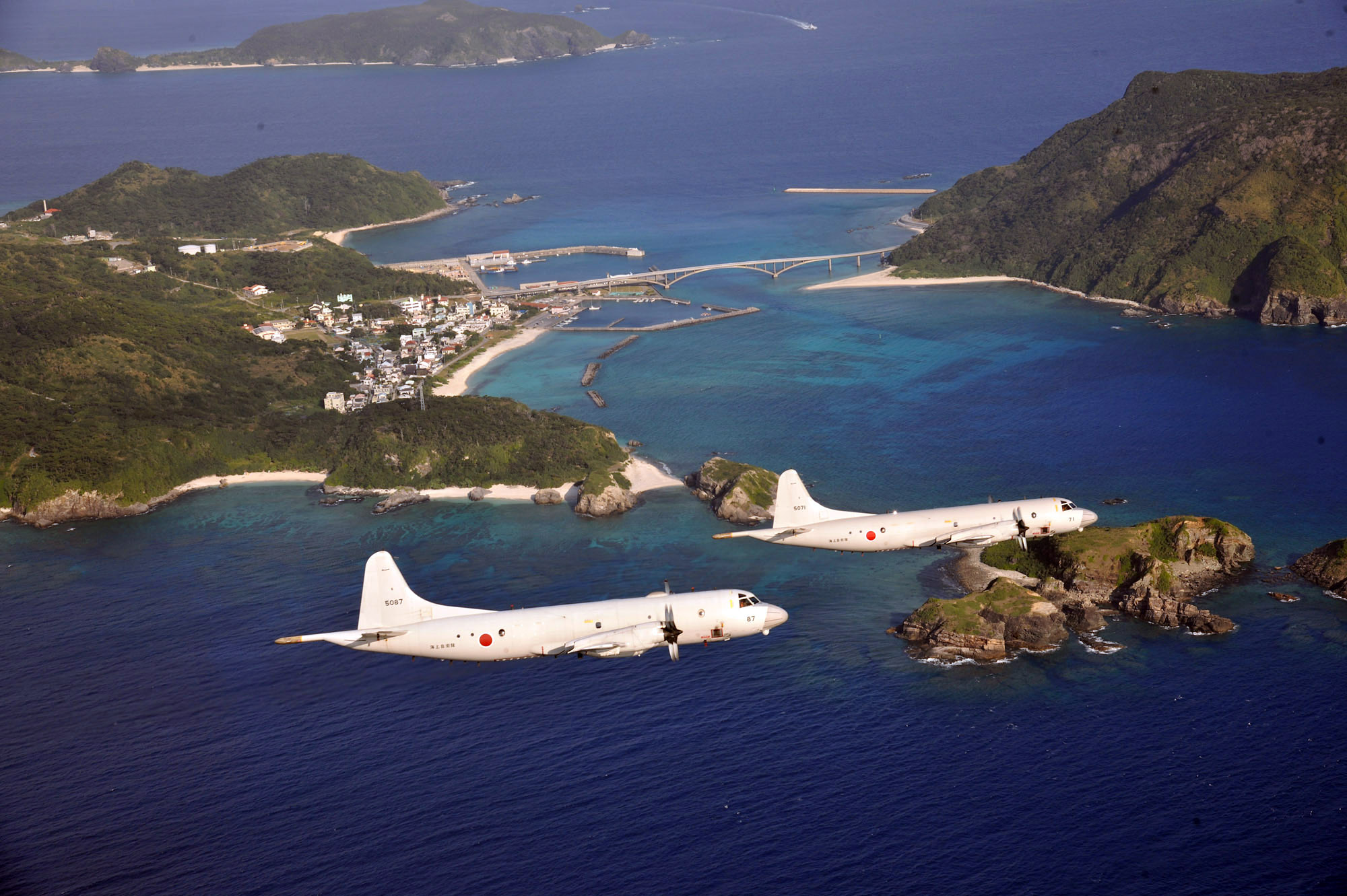 JMSDF Fleet Air Force P-3C